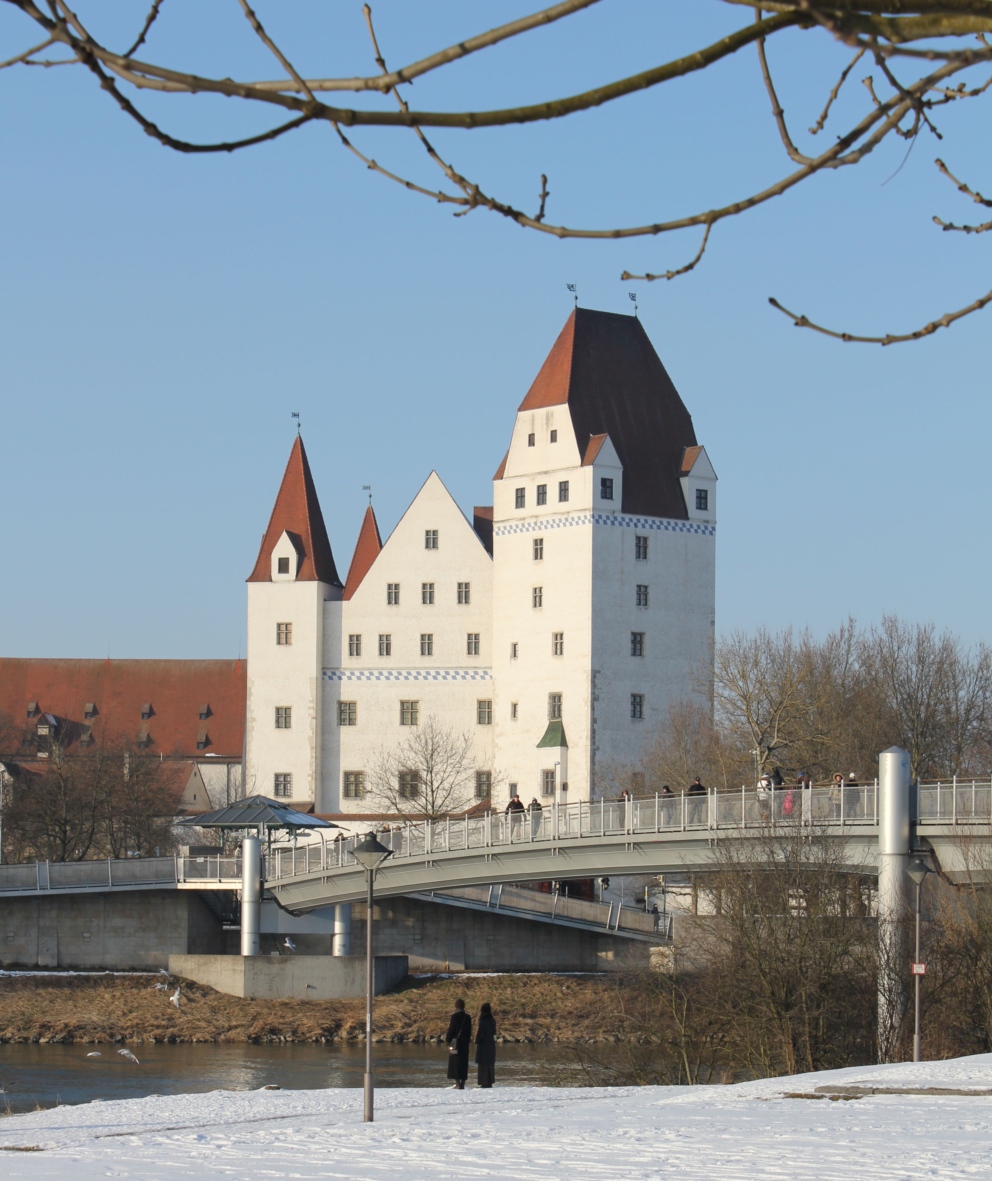 Ingolstadt: the New Castle seen from the opposite bank of river Danube